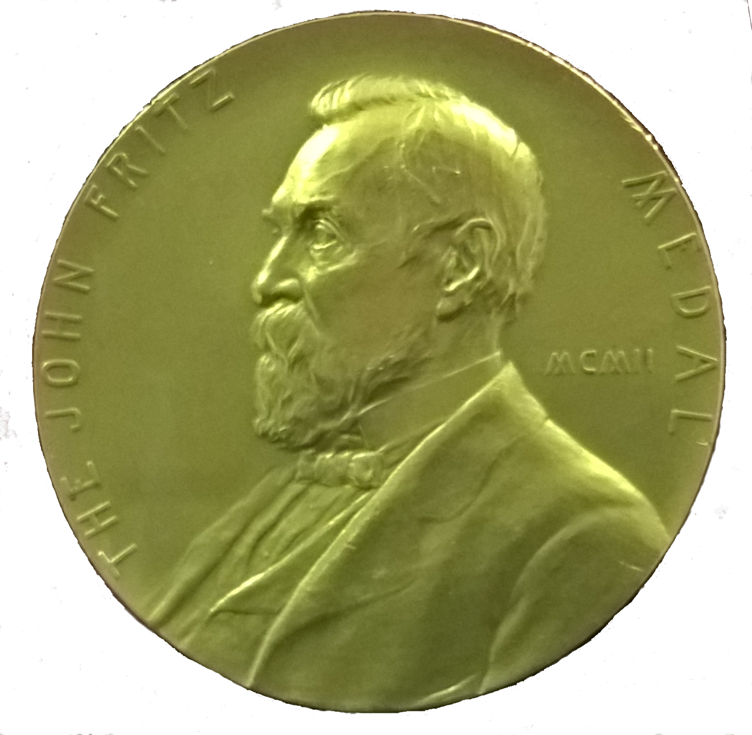 John Fritz Medal (gold) awarded 1921 to Sir Robert Hadfield. Showing John Fritz